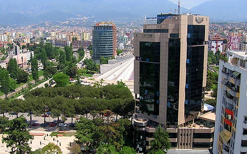 Tirana the capital of Albania Note : This is my own work , please dont delete this photo.